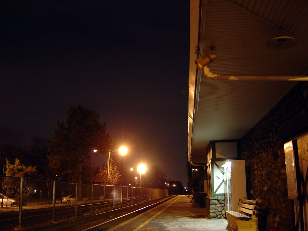 Glen Rock Main Line train station. Photo taken by User:Ld.